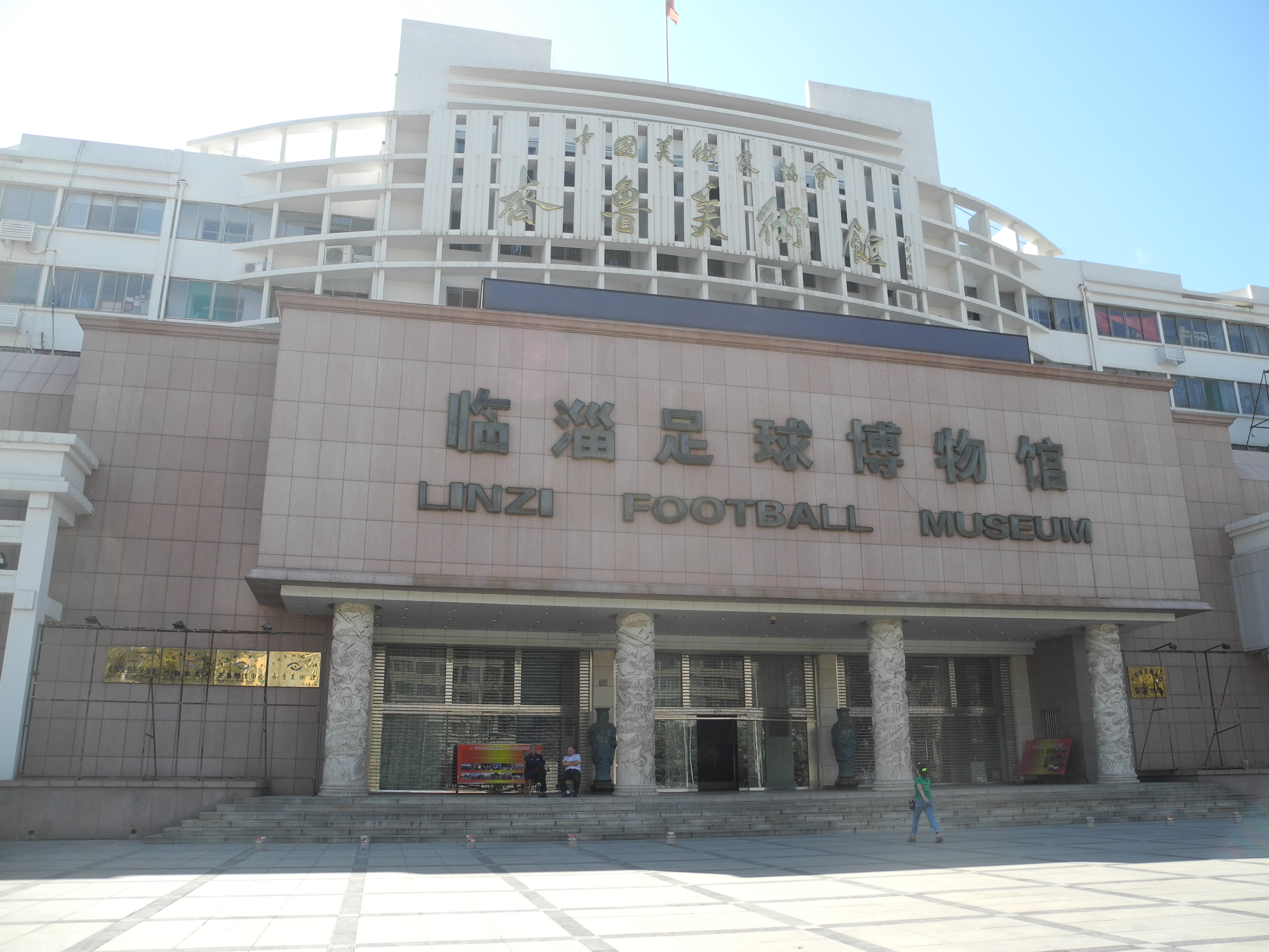 Linzi football museum